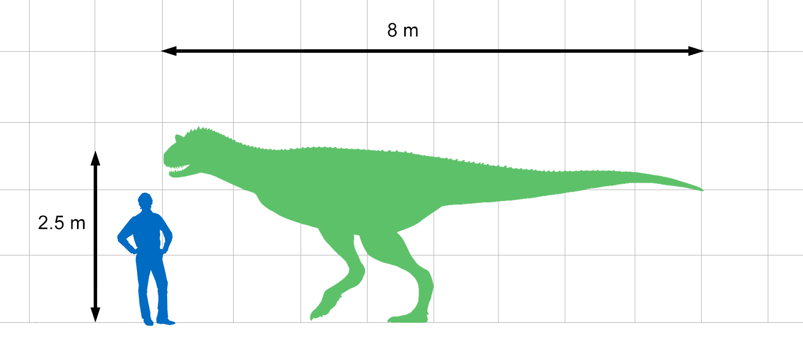 Carnotaurus-Human size chart comparison